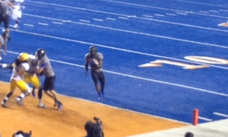 Jack Fields, running back for Boise State, scoring a touchdown in the 4th quarter of the Broncos game vs Southern Miss on September 28, 2013 at Bronco Stadium in Boise, Idaho. Jack Fields, running back for Boise State, scoring a touchdown in the 4th quarter of the Broncos game vs Southern Miss on September 28, 2013 at Bronco Stadium in Boise, Idaho.